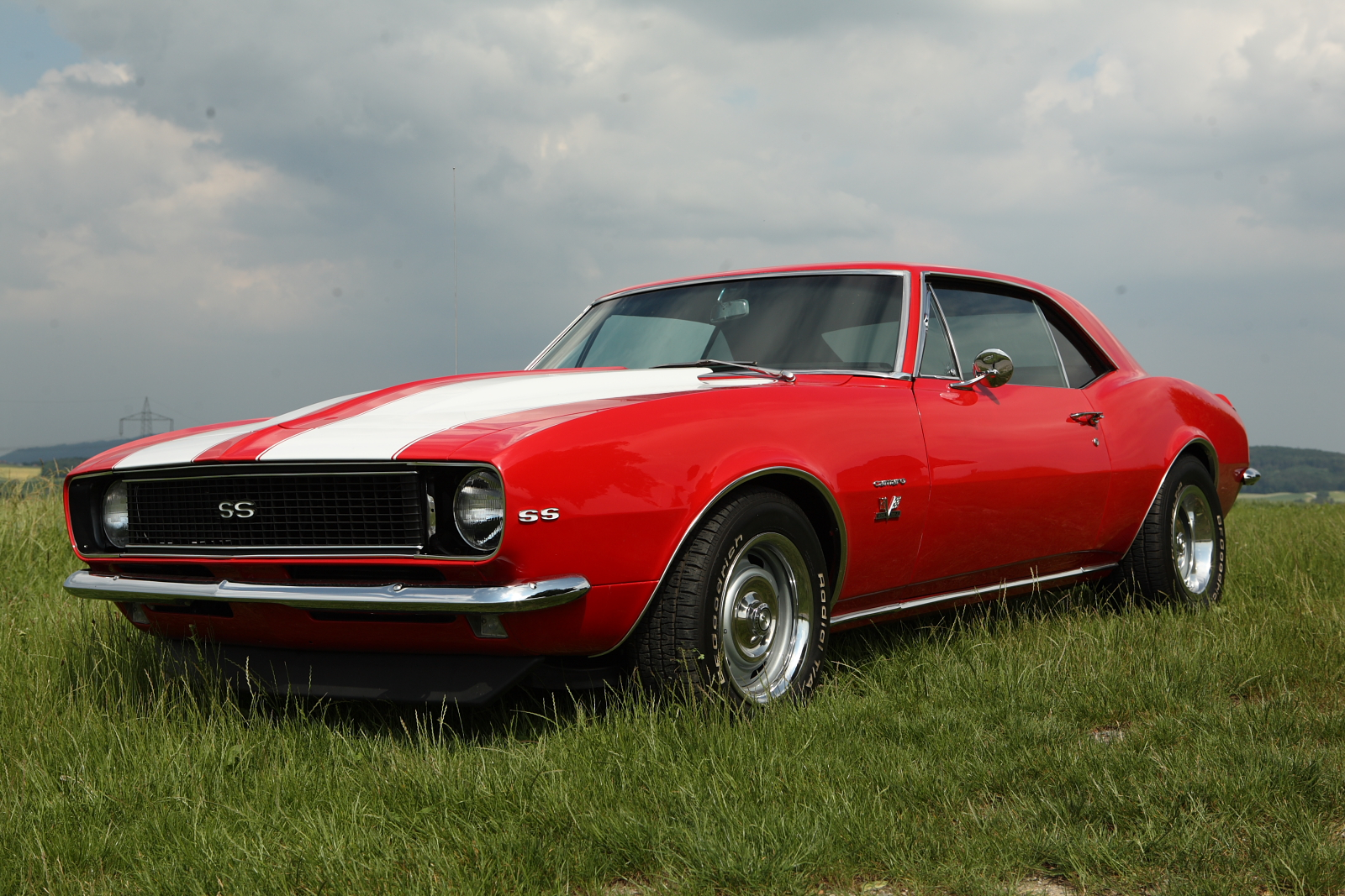 1967 Camaro SS